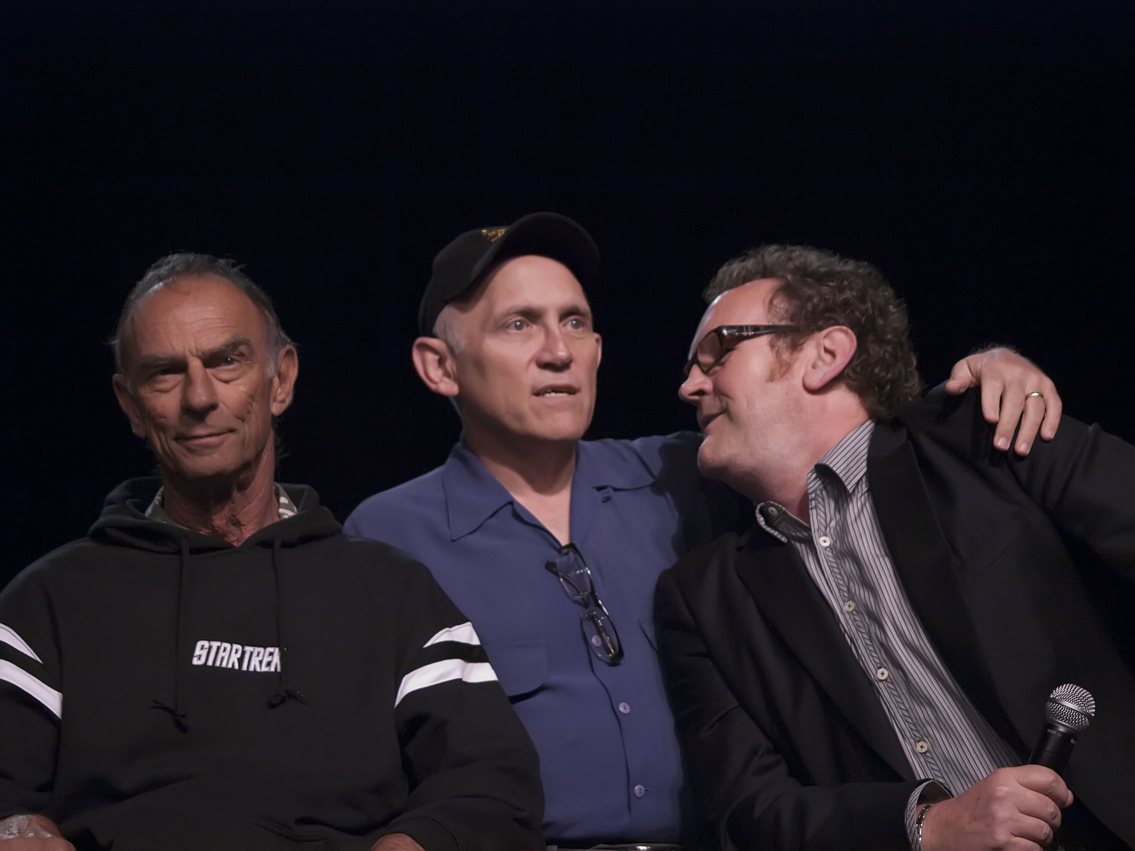 Marc Alaimo, Armin Shimerman and Colm Meaney at the Star Trek convention in Las Vegas in 2009.